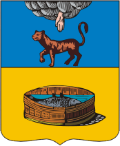 Luga (Leningrad oblast), coat of arms (1781)